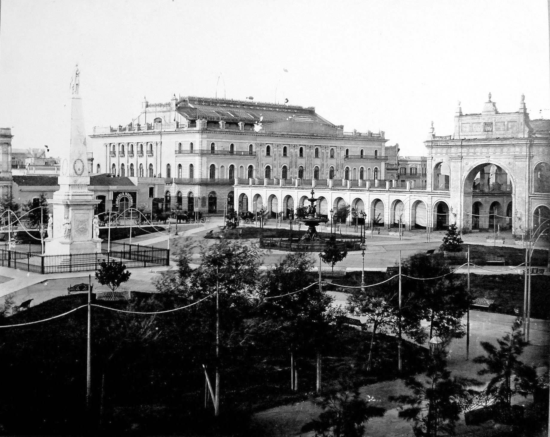 The Teatro Colón of Buenos Aires, when it was located in front of Plaza de Mayo.